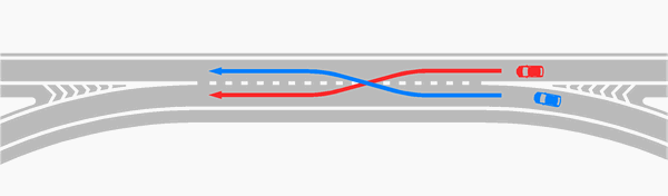 image of weaving traffic at highway.